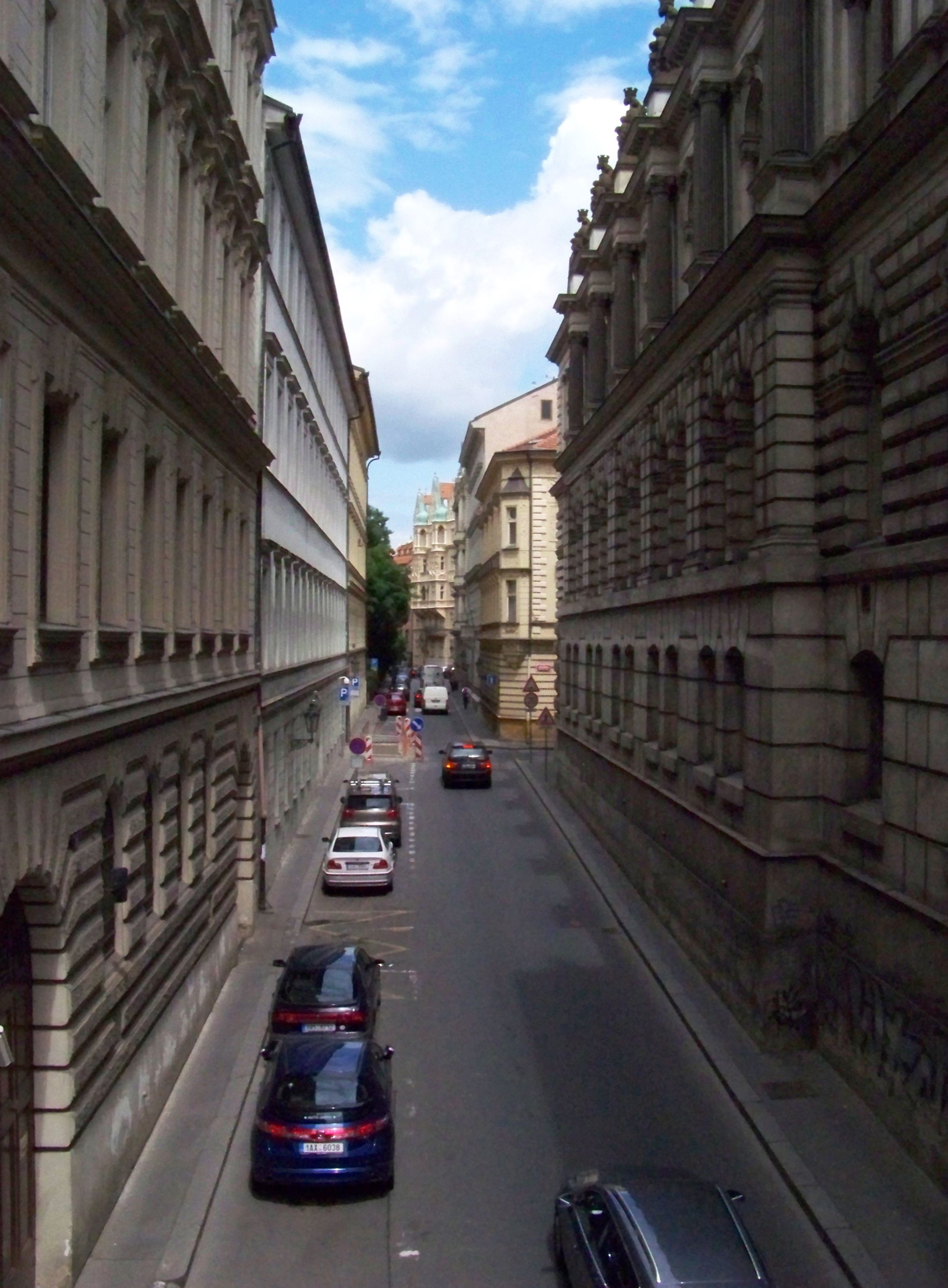 Prague-Old Town, the Czech Republic. Divadelní street, from Národní.